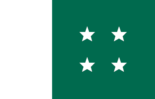 First Flag of Bangladesh Awami League (1947-1971)